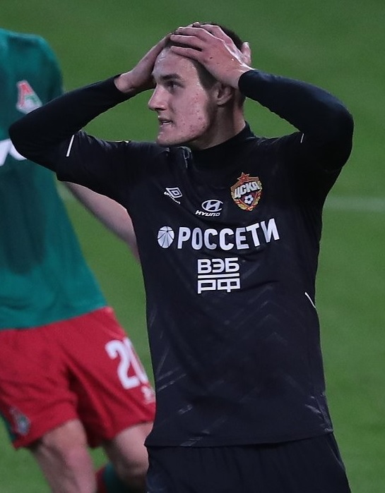 Ilya Shkurin with PFC CSKA Moscow in a game against FC Lokomotiv Moscow.